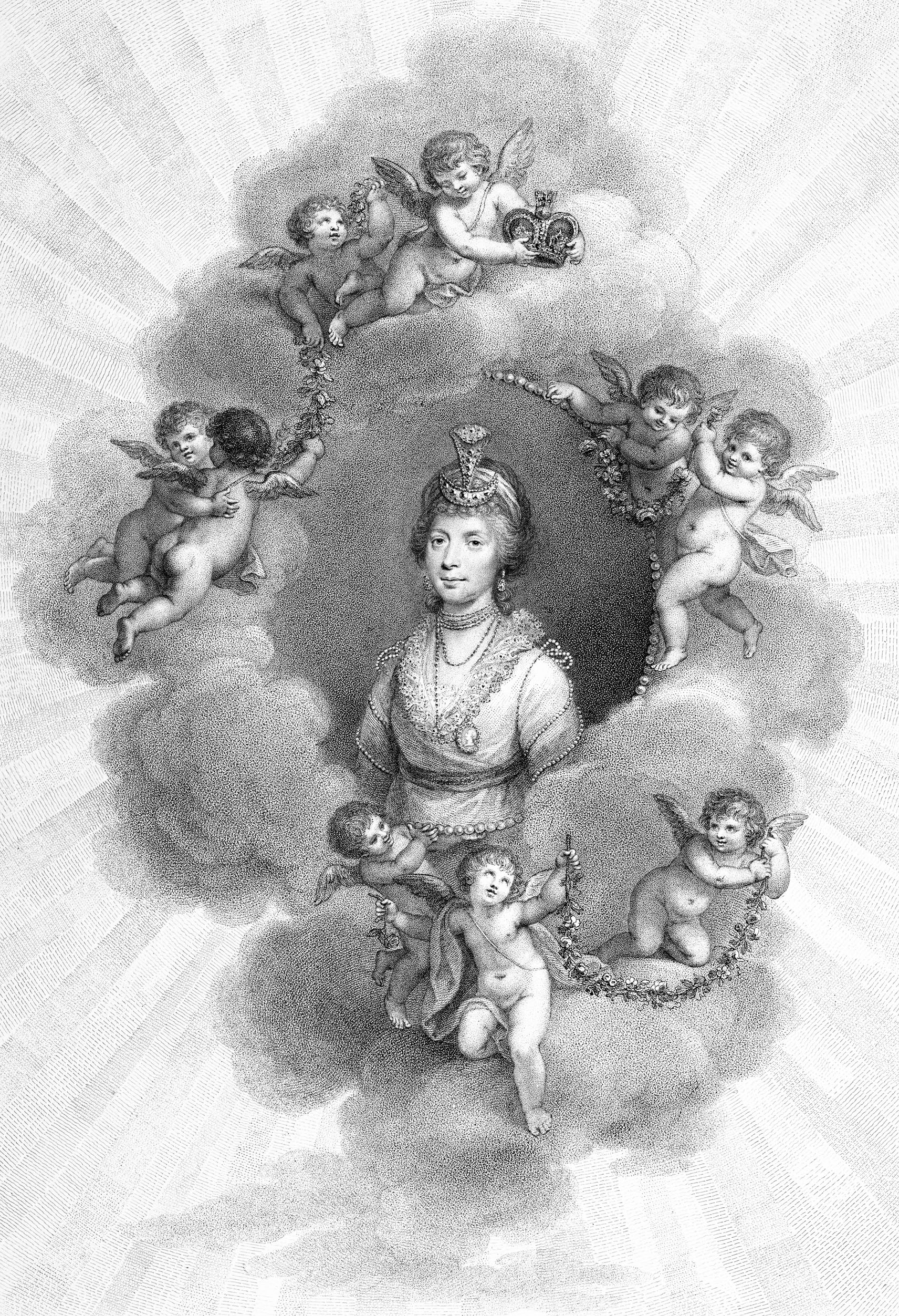 Original caption: "PORTRAIT of HER MAJESTY/ Patroness of Botany, and of the Fine Arts/ London. Published Jany.1,1799, by Dr. Thornton, Duke Street, Grosvenor Square." Left: "Sir W. Beechy R.A. pinx. ad viv." Right: "F. Bartolozzi R.A. ornax. et sculp."